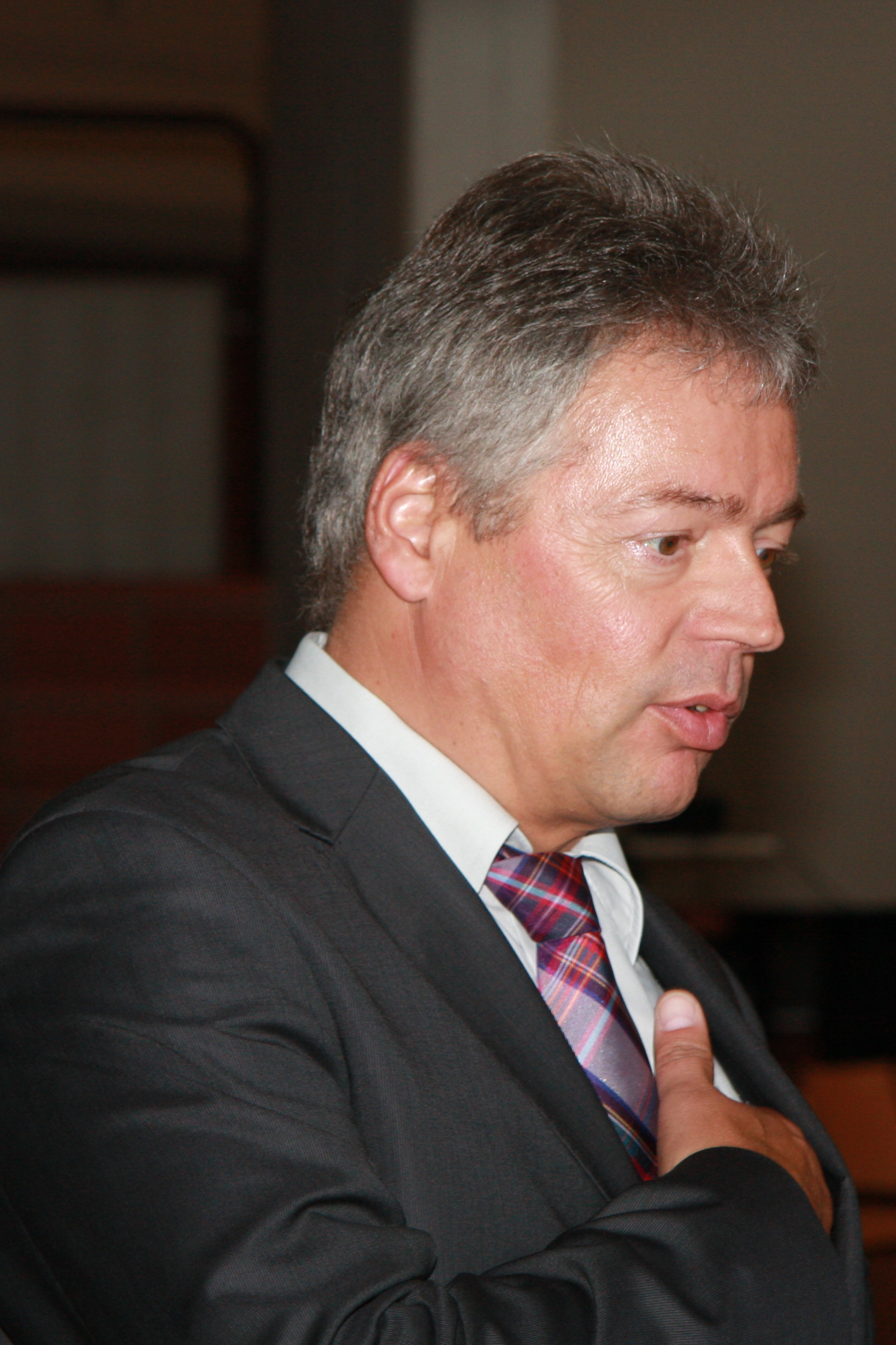 Bernhard Witthaut, head of the German Police Trade Union